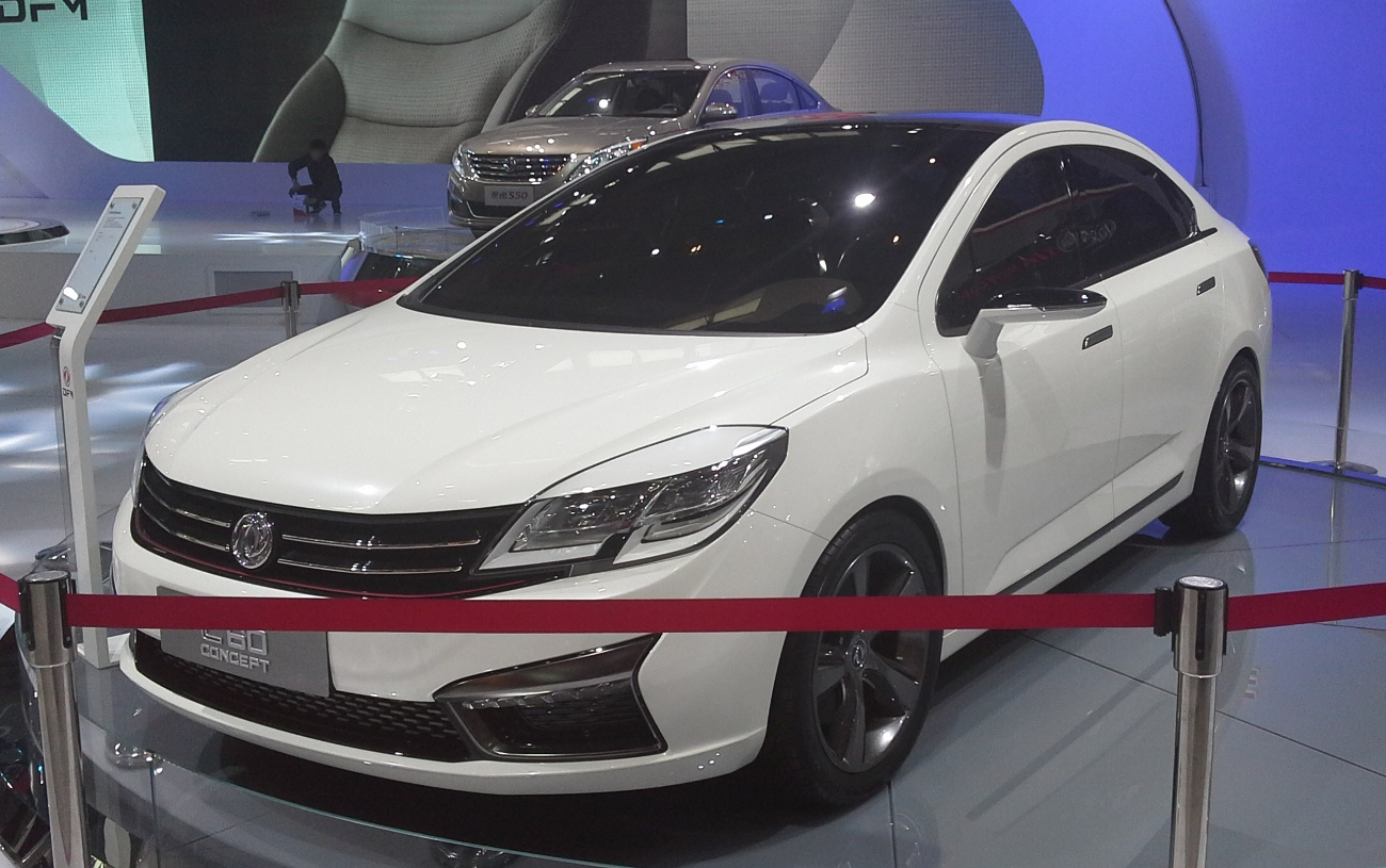 Dongfeng Fengshen L60 Concept photographed at the Auto China 2014, Beijing, China.